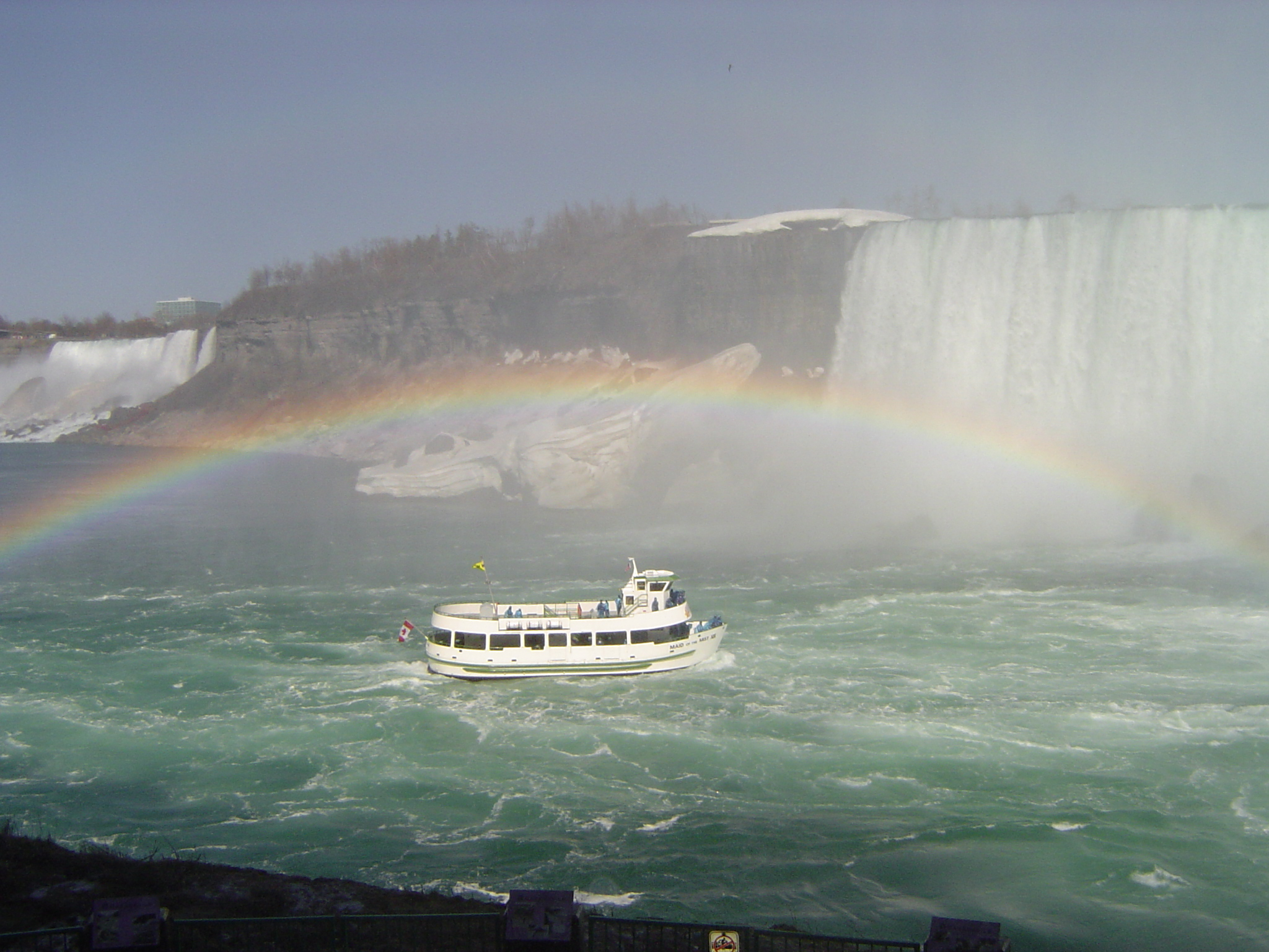 Winter at The Falls. Maid of the Mist below rainbow. Niagara Falls, Canada. Model : DSC-P72 Exposure Time : 1/1250Sec MaxAperture Value : F2.8 Focal Length : 6.00(mm)